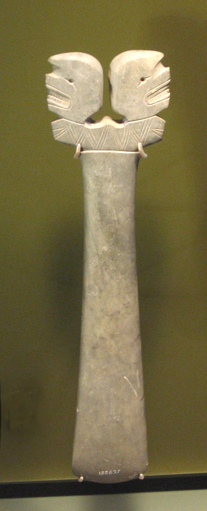 Greenstone staff from the Tairona culture, 1550-1600 AD, from Magdalena, Colombia. From the Field Museum, Chicago